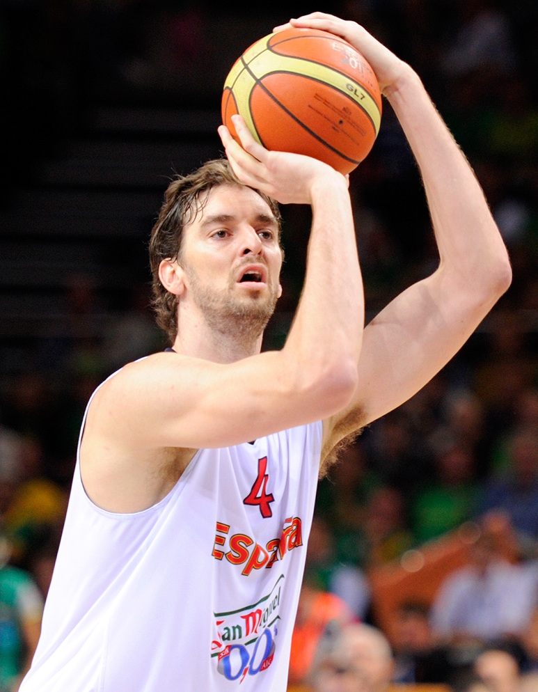 Pau Gasol during EuroBasket 2011